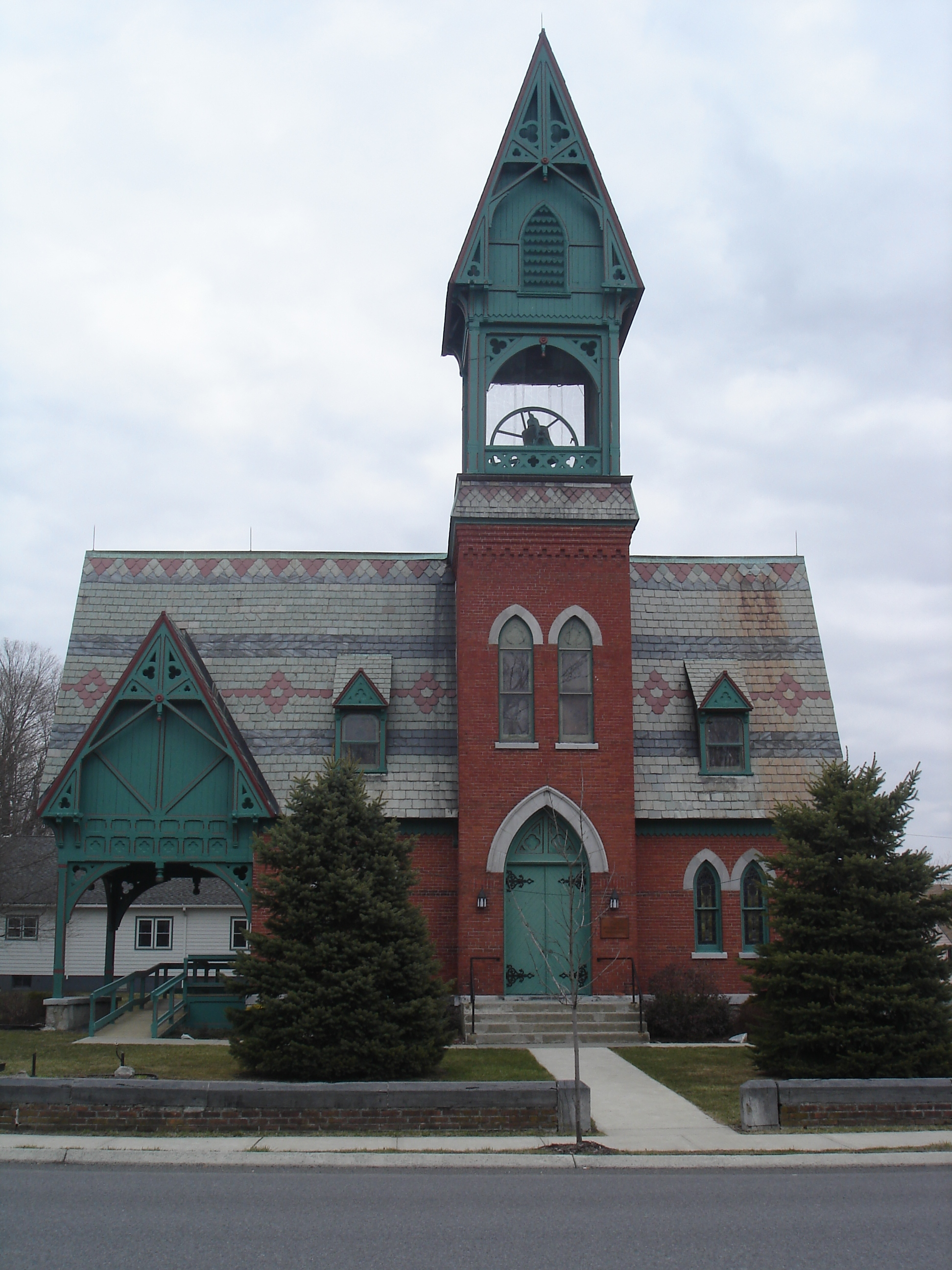 High Victorian Gothic Revival building designed by Ogden & Wright Architects was built in 1878 of red brick with limestone trim, slate roof and slate dormer windows. This congregation formed in 1835; the High Victorian Gothic Revival style building designed by Ogden & Wright Architects was built in in Valatie, NY in 1878 and is listed on the National Register of Historic Places.